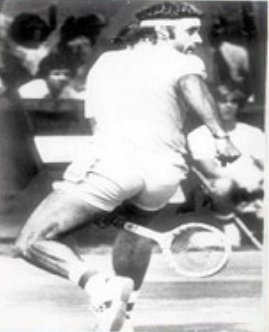 Argentine tennis player Guillermo Vilas making "The Grand Willy".